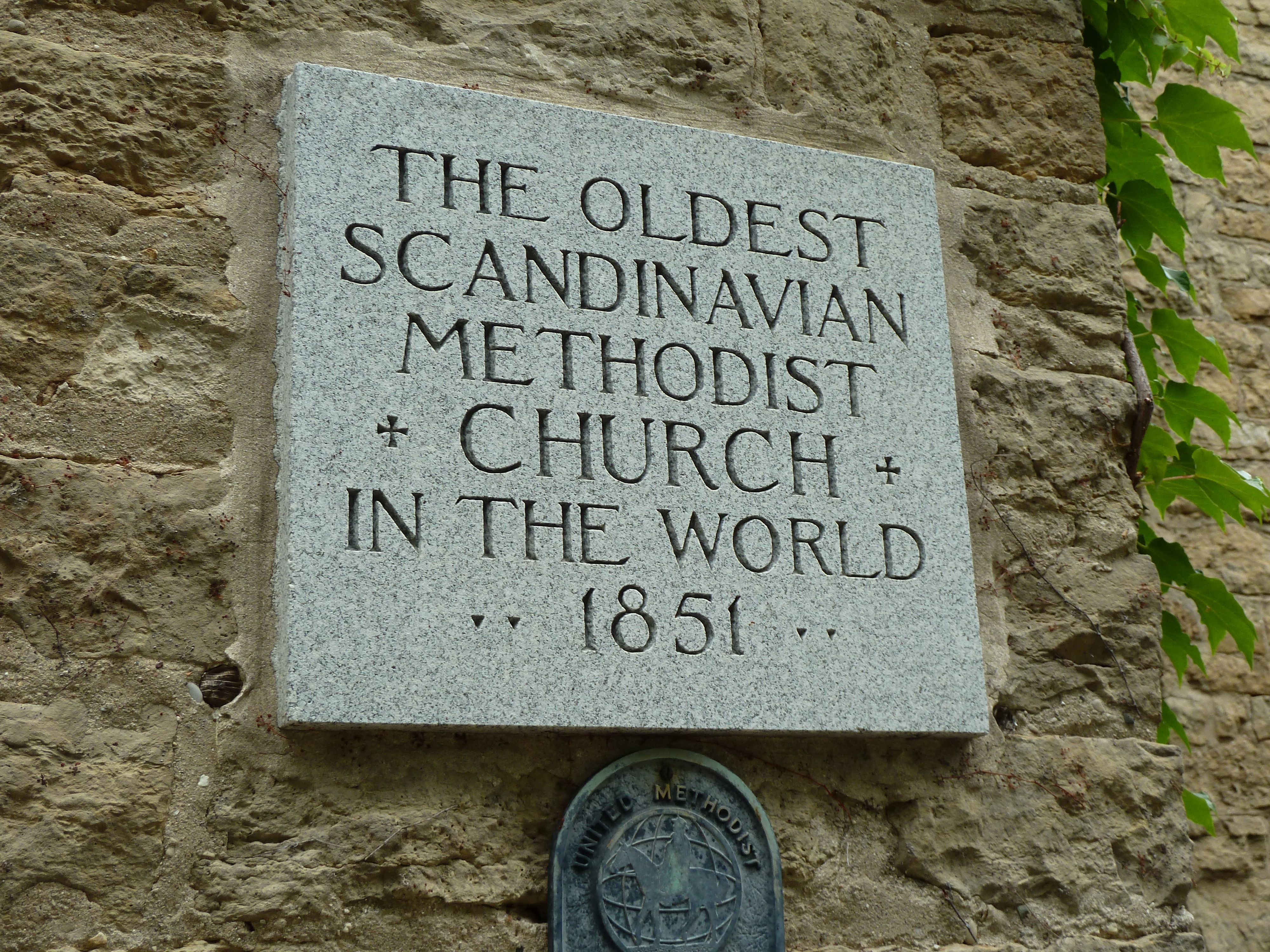 1851 Methodist Church in Cambridge, Wisocnsin.